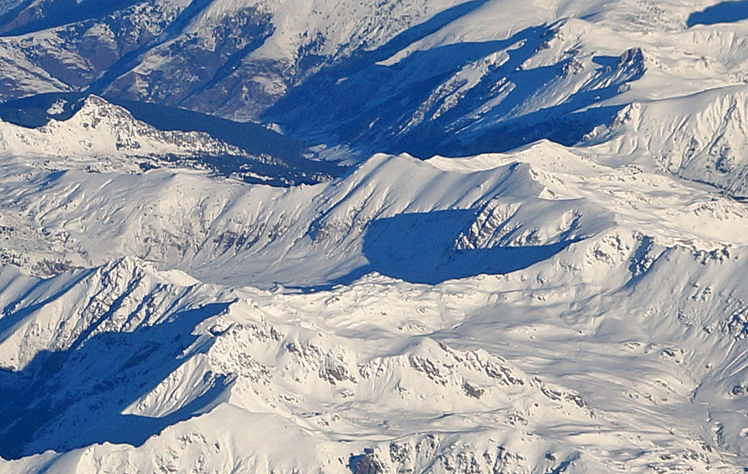 Tromedja/Trekufiri and other mountains of the Albanian Alps in the Albanian-kosovar-montenegrinian border area.